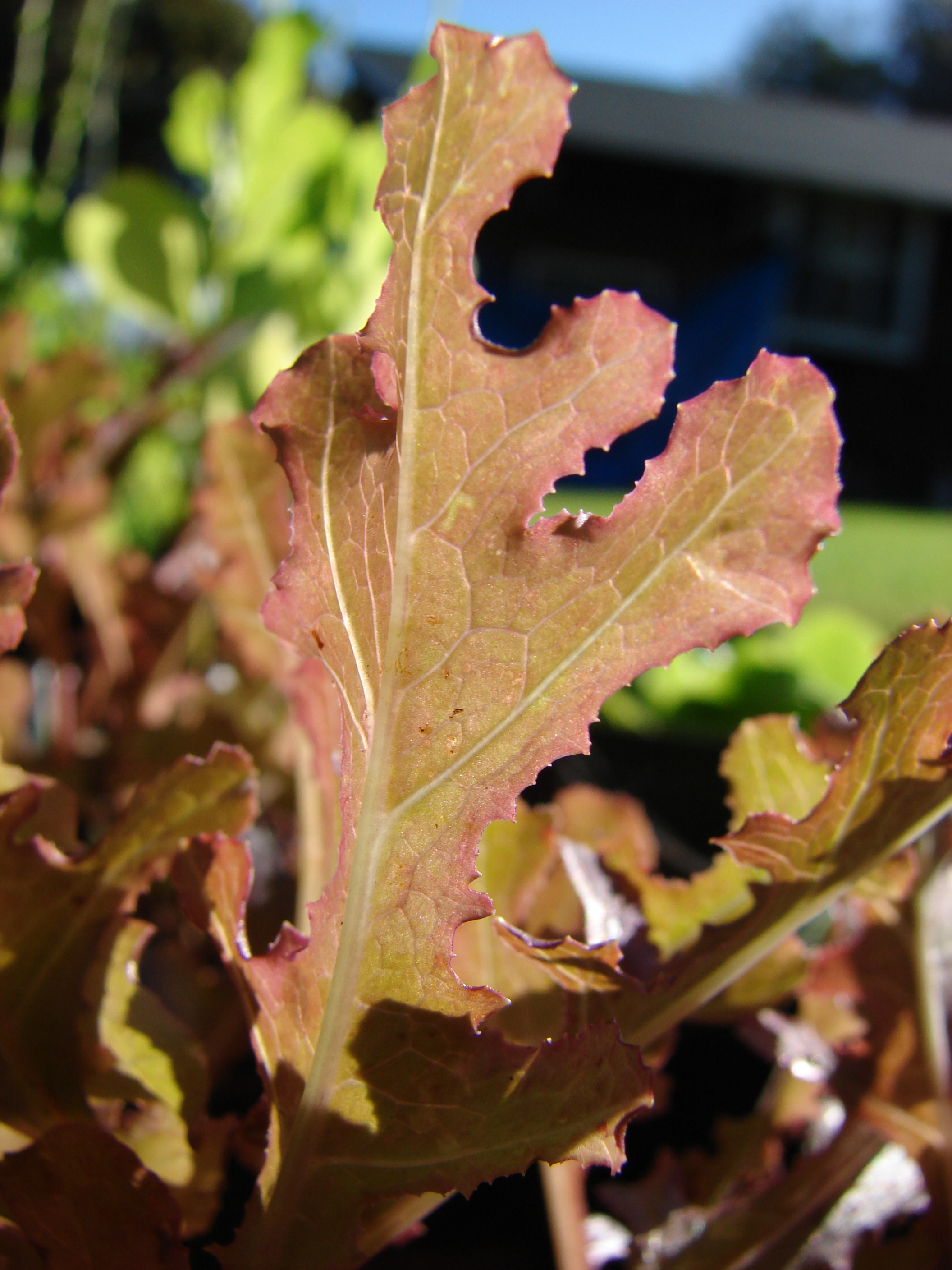 Lactuca sativa (red oak leaf lettuce). Location: Maui, Makawao